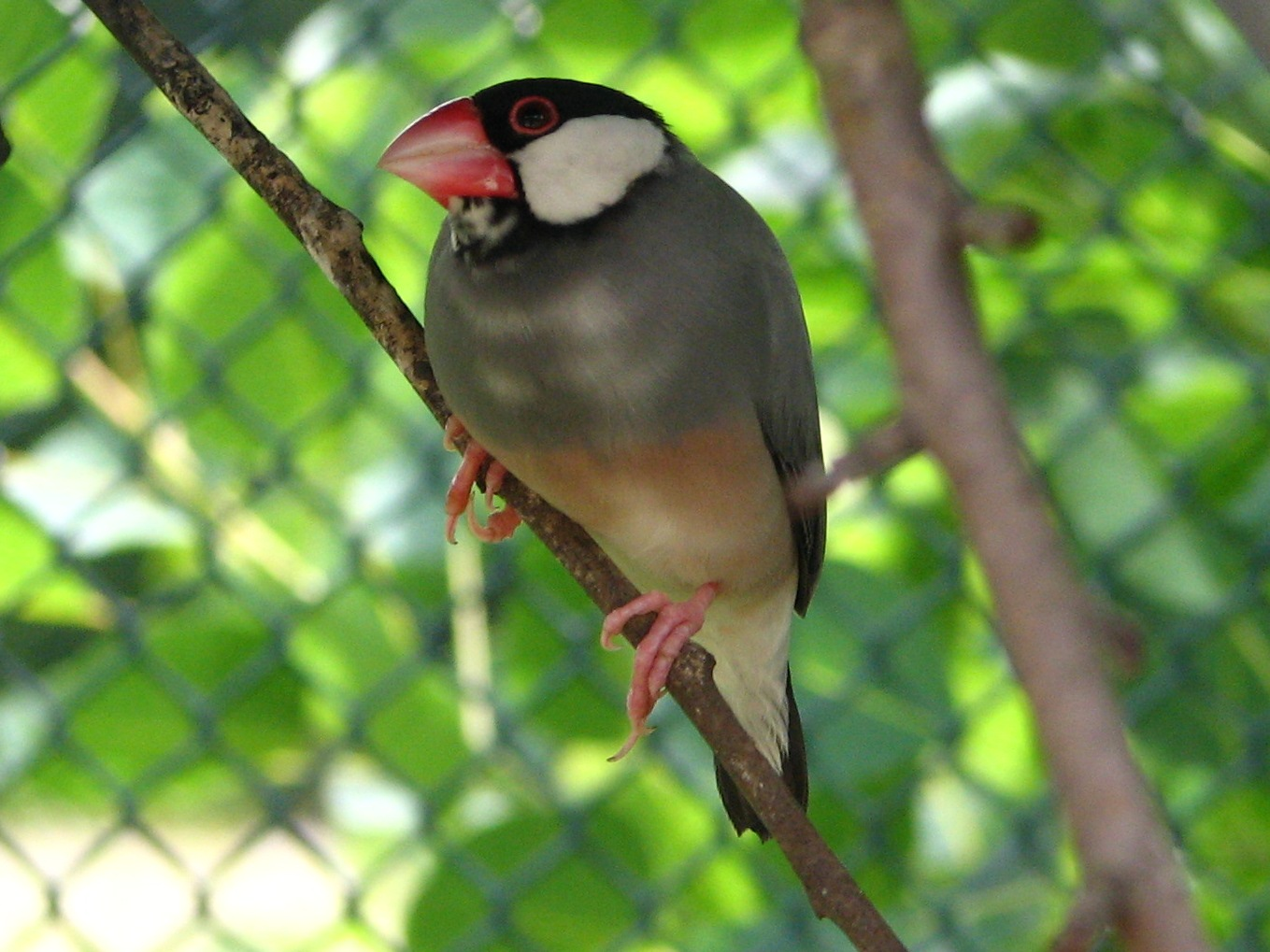 Java Sparrow, Častolovice castle, Czech Republic